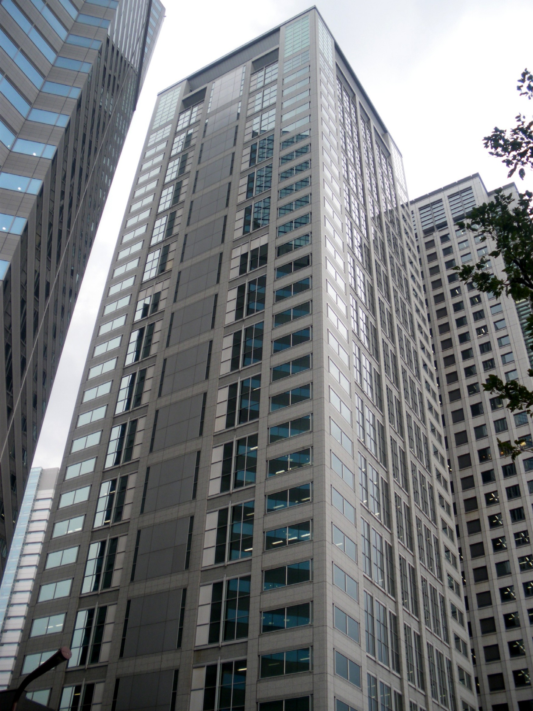 A photo of Taiyo Life Insurance Shinagawa Building at Shinagawa Grandcommons.Konan,Minato-ku,Tokyo,Japan.